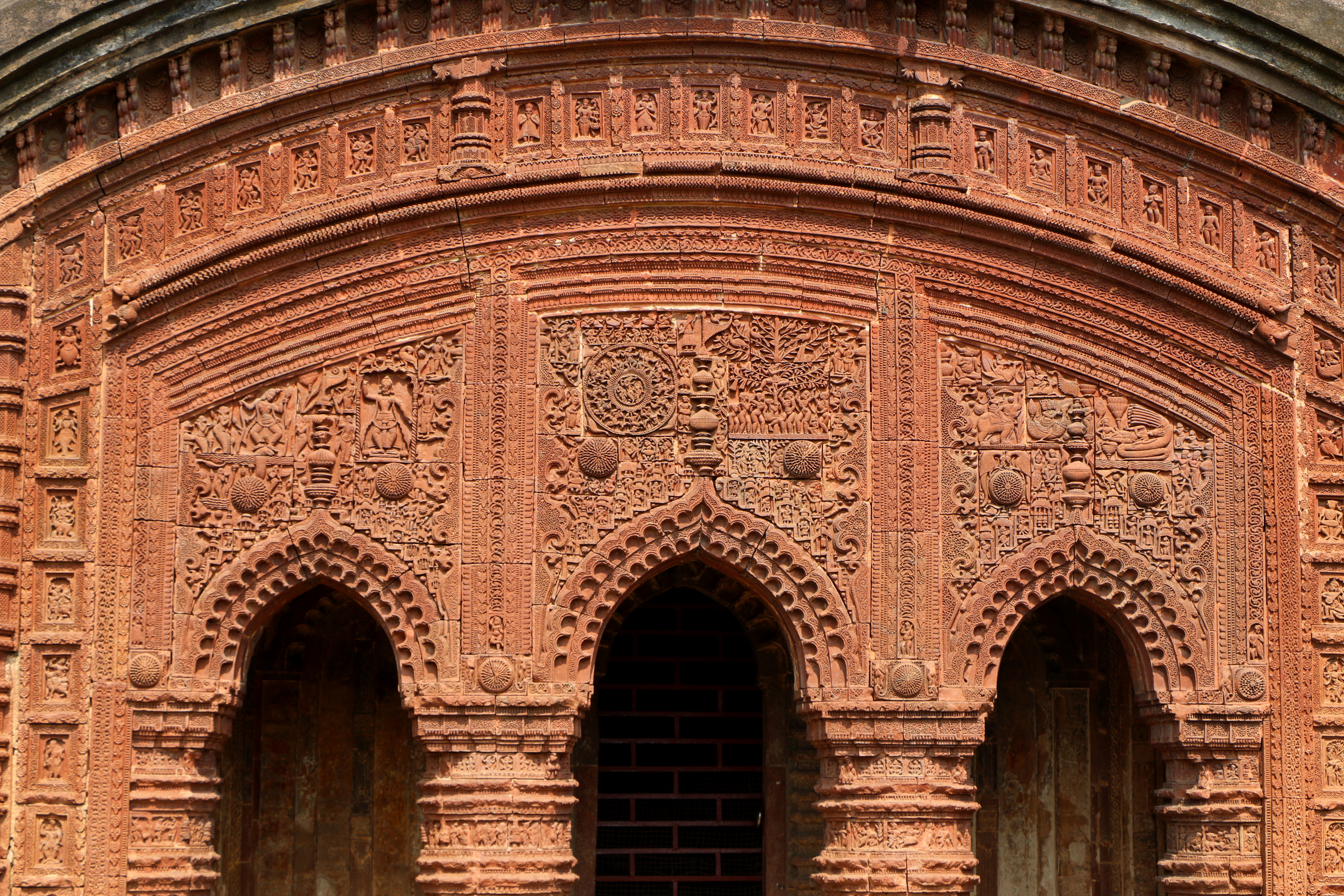 Terracotta work on temple wall of Damodar Temple entrance